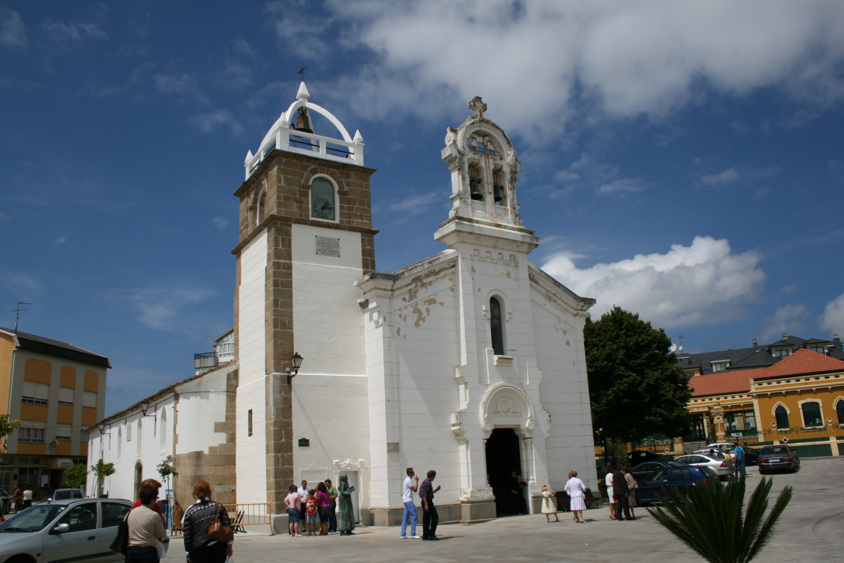 San José de Ares Church, in Ares, Galicia, Spain.